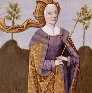 Jocasta, mother of Oedipus.